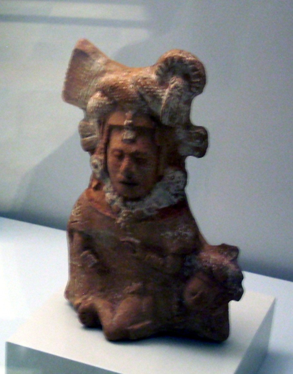 Late Classic Maya figurine in the Museum of the Americas, Madrid. AD 600-900.